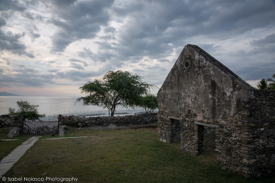 Prison of Ai Pelo